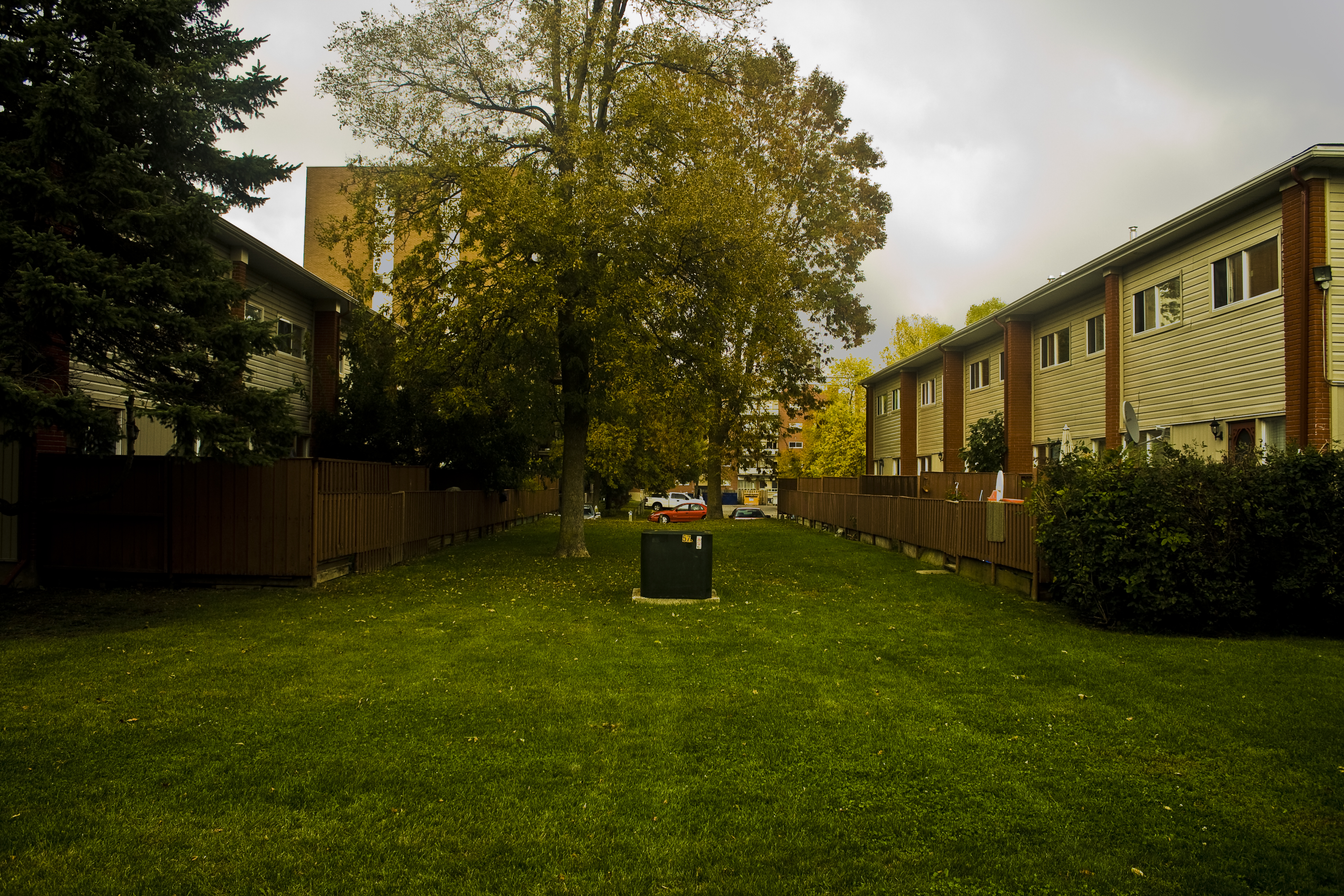 Courtyard between the buildings of 1208 & 1210 Meadowlands Drive, Parkwood Hills, Nepean, Ontario, Canada.